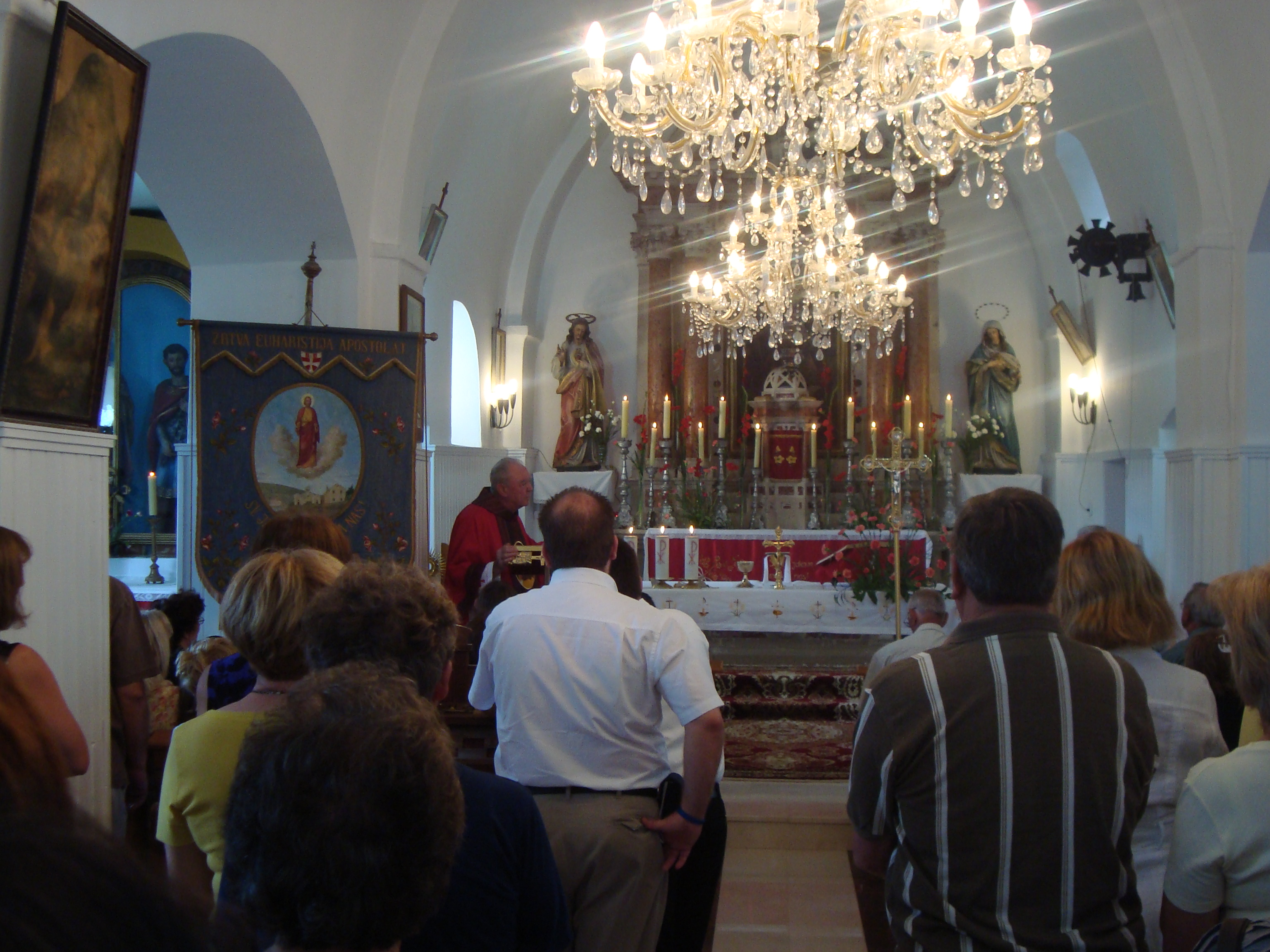 In the Church of St. James in Soline, Dugi otok, Croatia